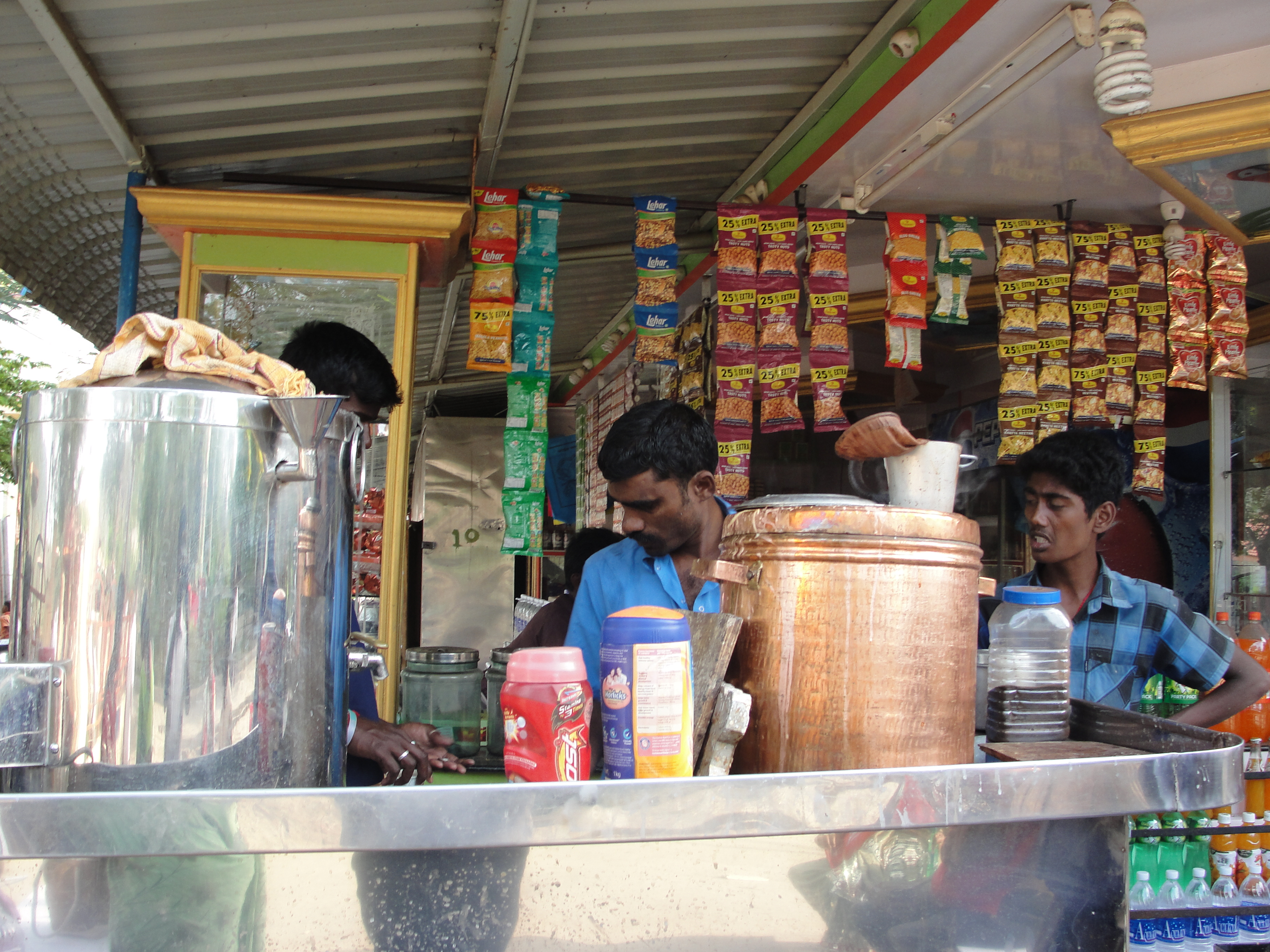 A Tea stall in Hokenakal. Location: Hokenakal, Dharmapuri district, Tamil Nadu, India.